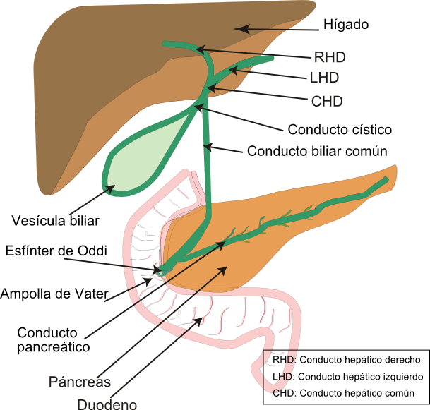 Corrected the location where two ducts join according to request from Illustration workshop